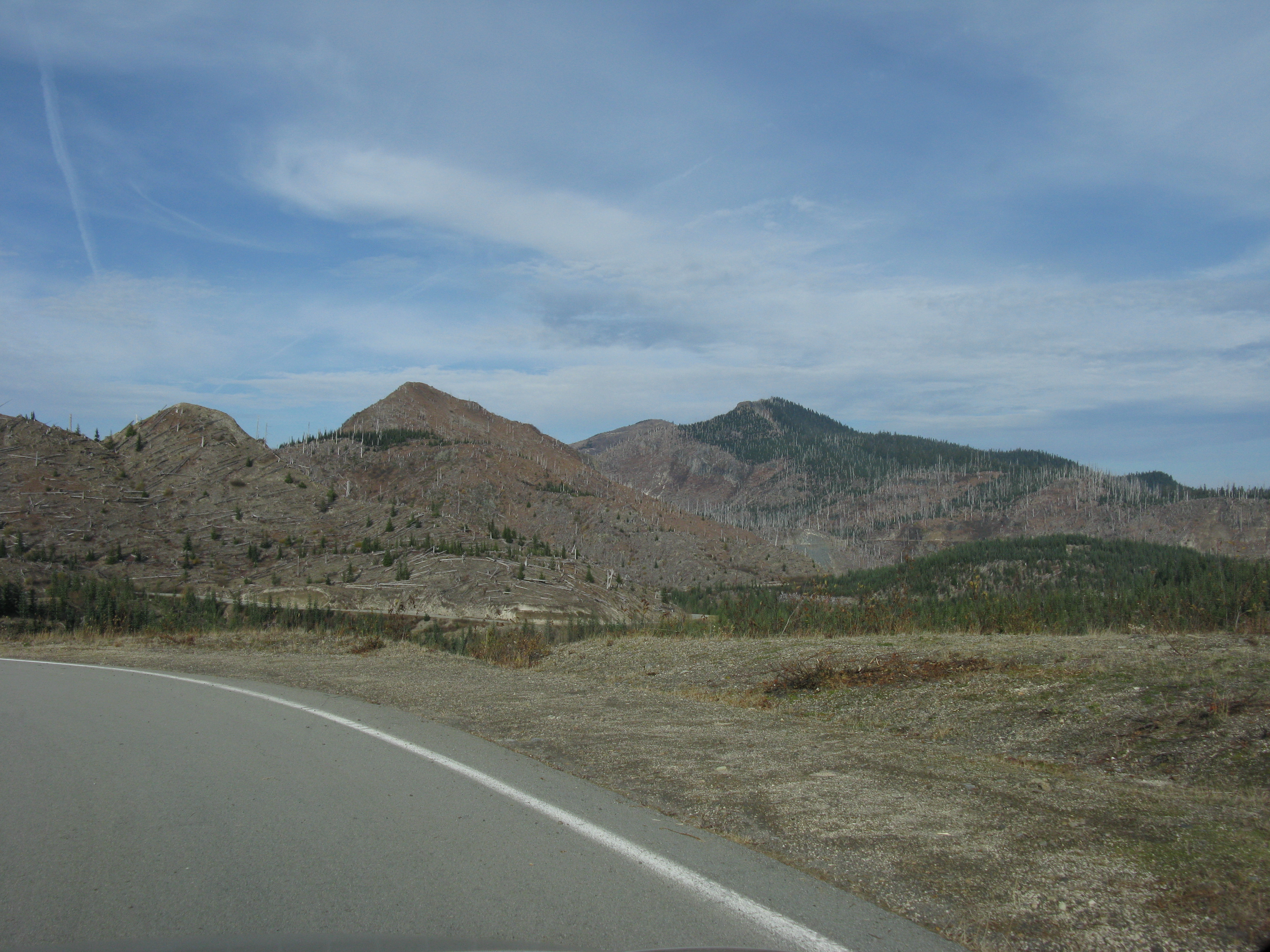 About 30 years after the 1980 eruption, the after effects of the blast still were conspicuous. Lateral blast effects were drastically affected by the positions of local minor peaks, ranging from scouring open ground, through snapping off partly exposed trees, to missing nearby trees completely.